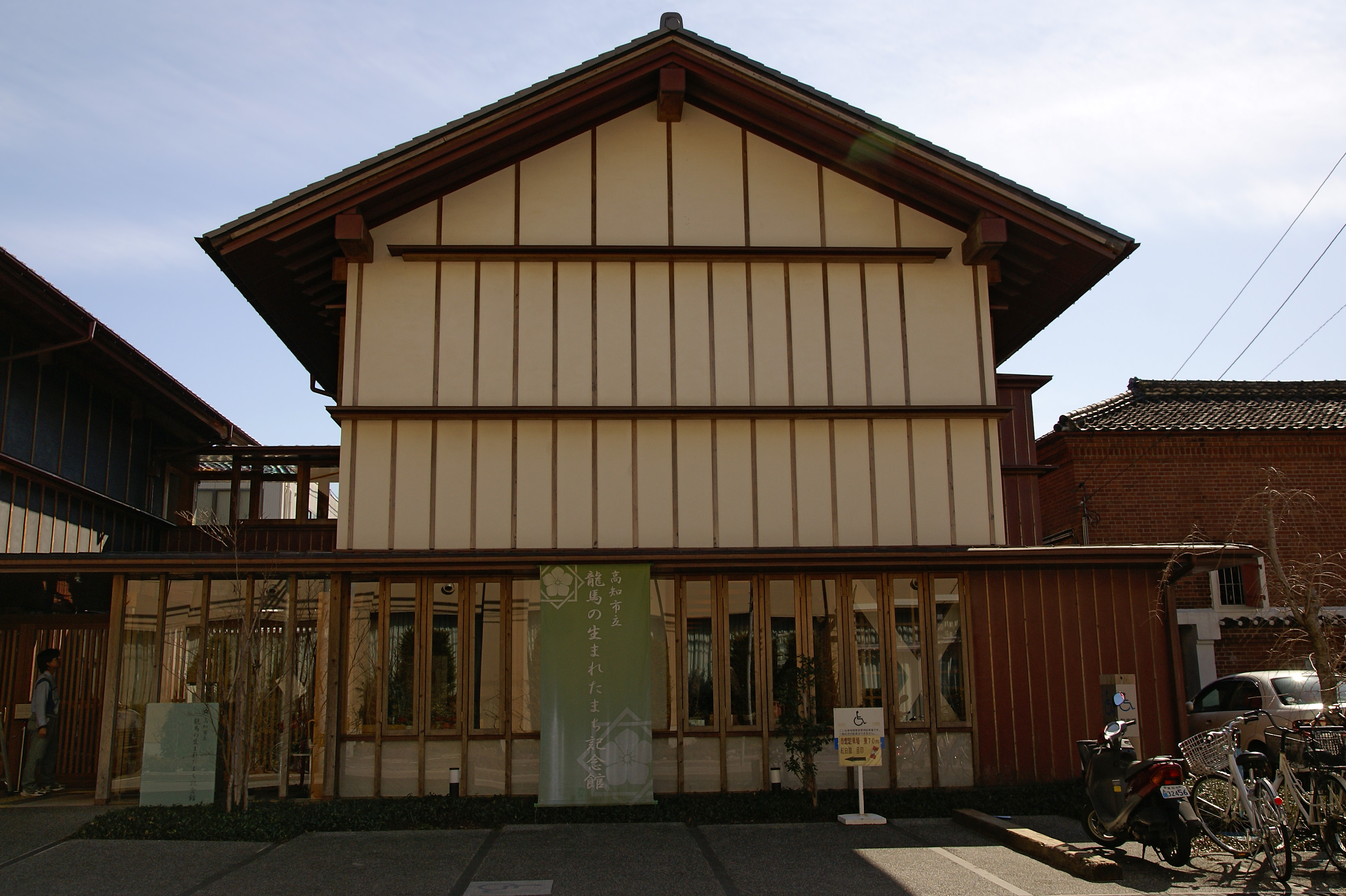 Ryoma's Hometown Museum (Ryoma-no-umareta-machi Memorial Hall) in Kochi, Kochi prefecture, Japan